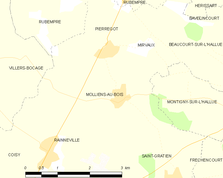 Map of French municipality Molliens-au-Bois